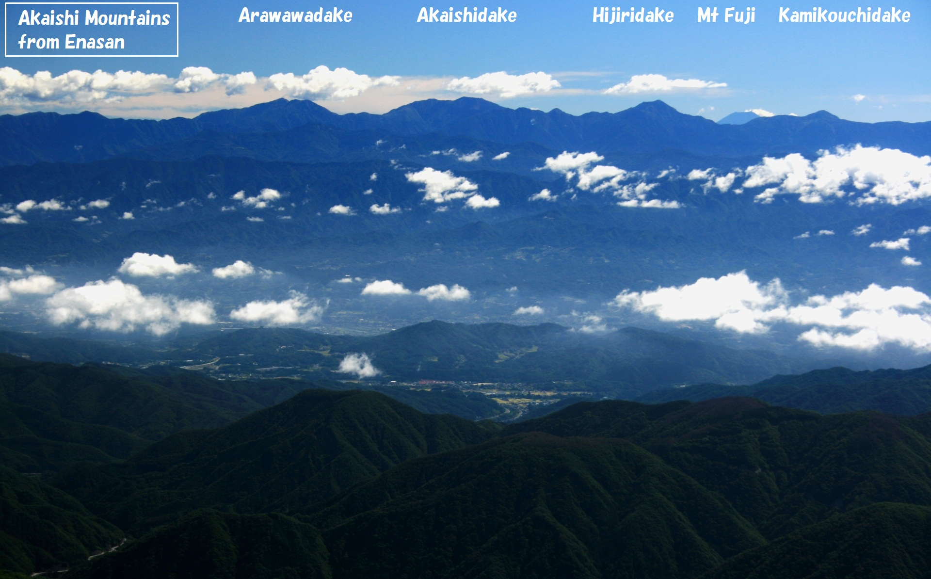 Akaishi Mountains and Mount Fuji seen from Mount Ena, in Kison Mountains, Japan.